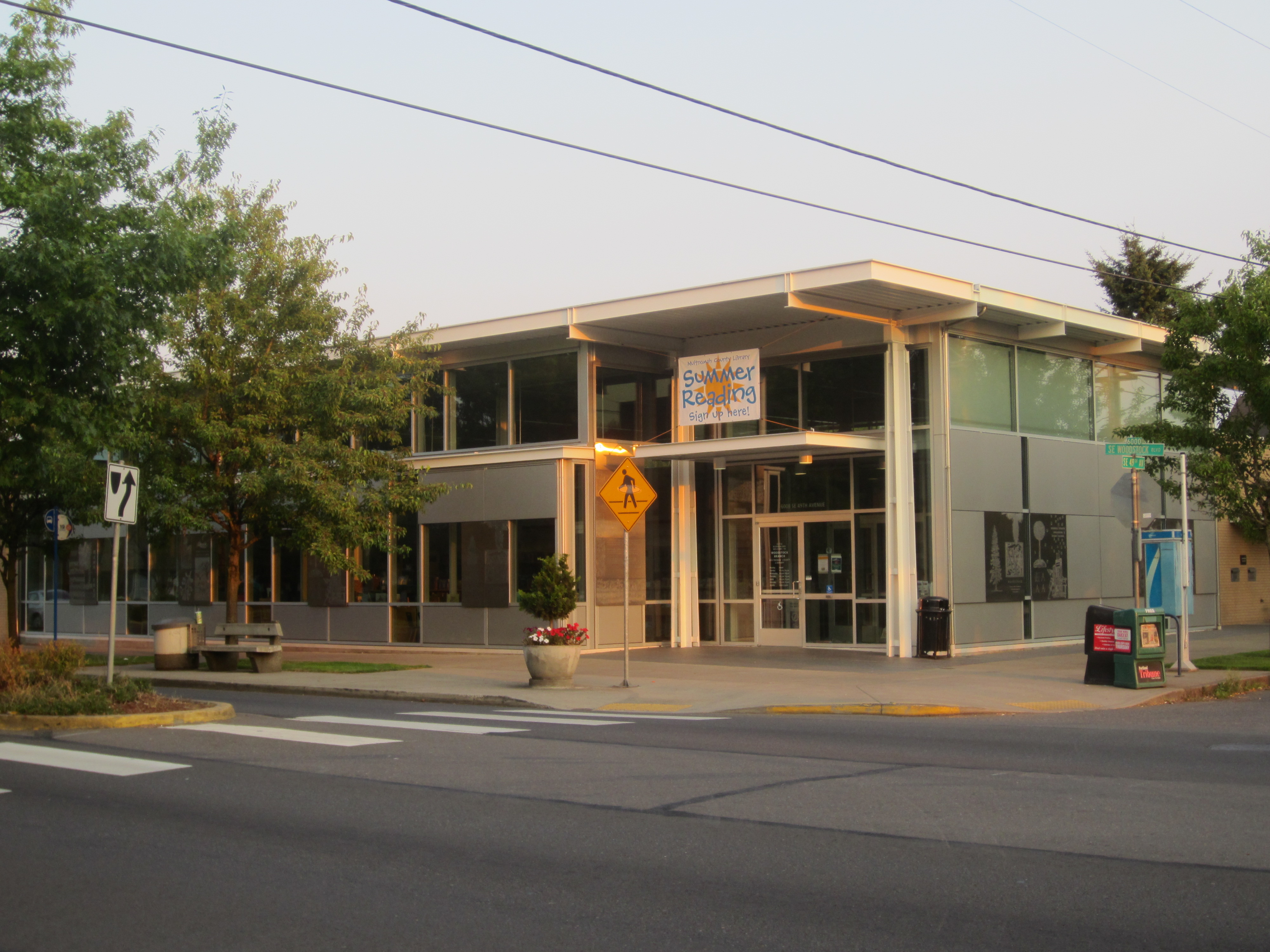 Woodstock Library, a branch of the Multnomah County Library system, located in the Woodstock neighborhood of southeast Portland, Oregon in 2012